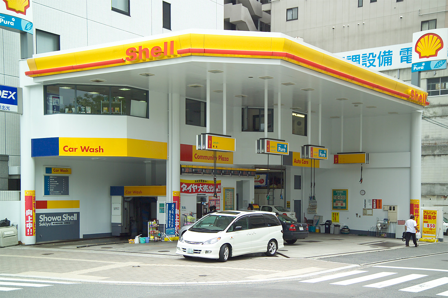 Gas station in Hiroshima, Japan. I took the photo.